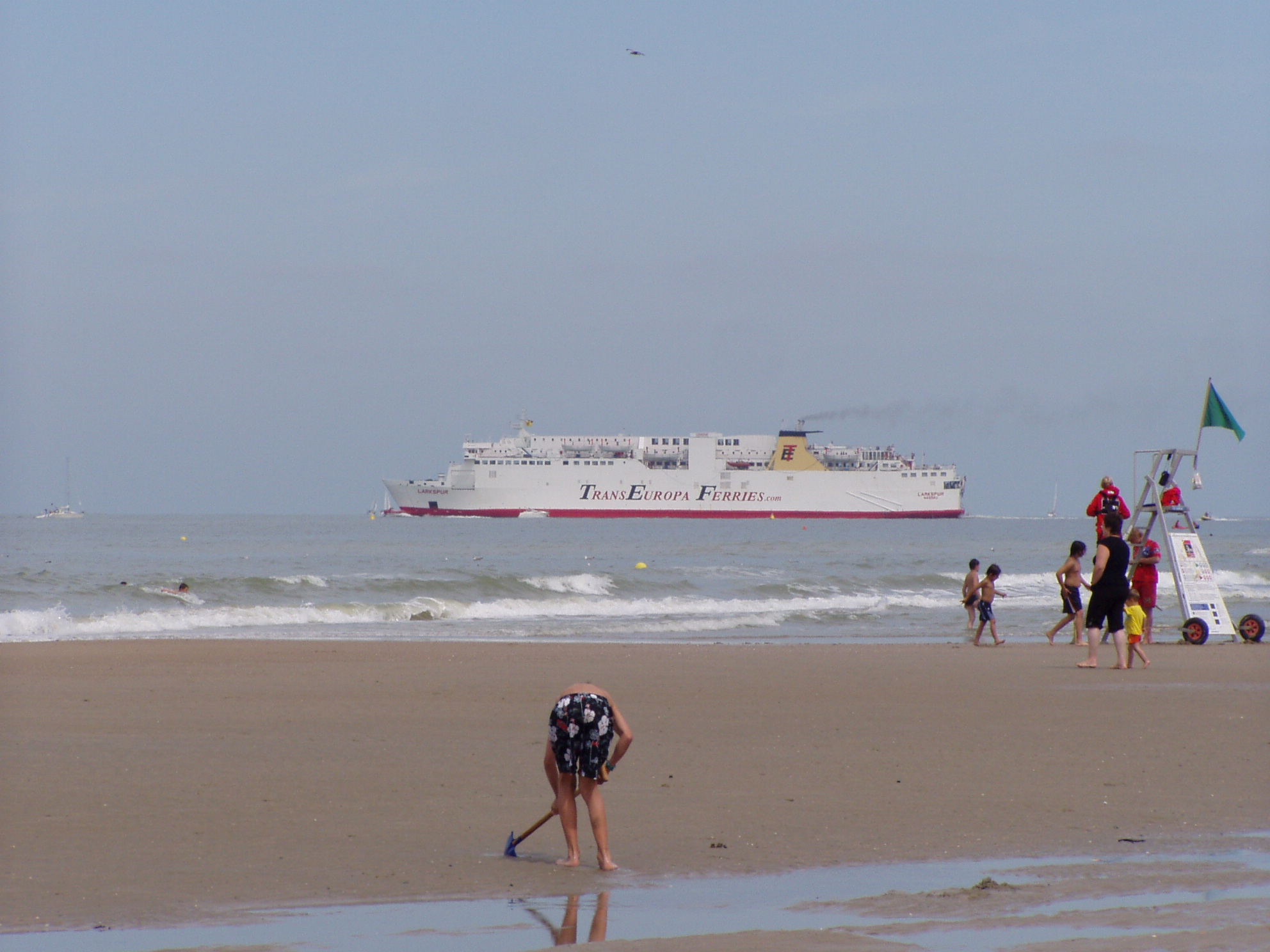 MV Larkspur leaving Ostend IMO Number: 7500451 MMSI Number: 308906000 Callsign: C6BR6 Length: 143 m Beam: 20 m